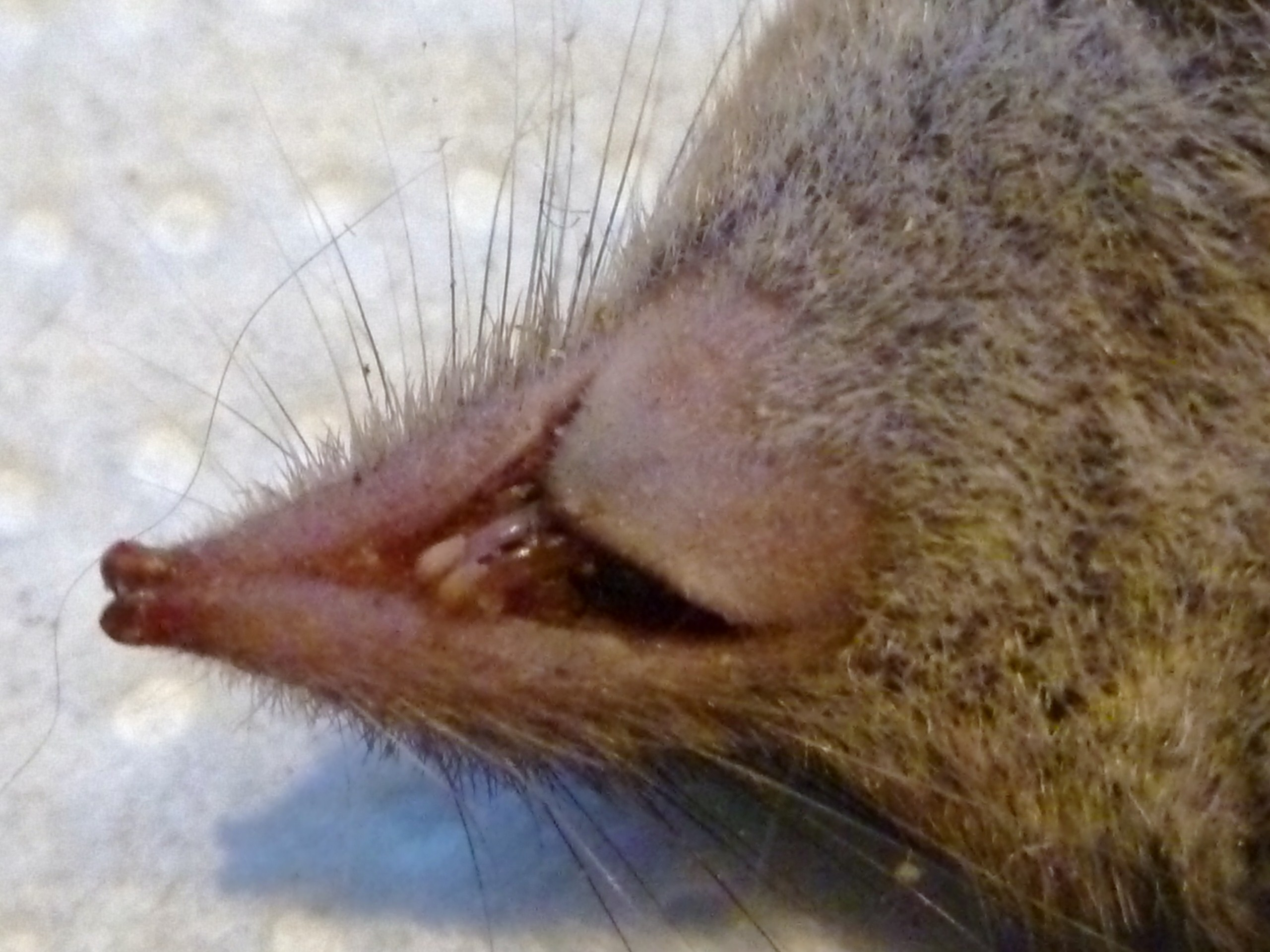 Teeth of Crocidura russula; body length : 65 mm; length of the tail : 40 mm; Belgium